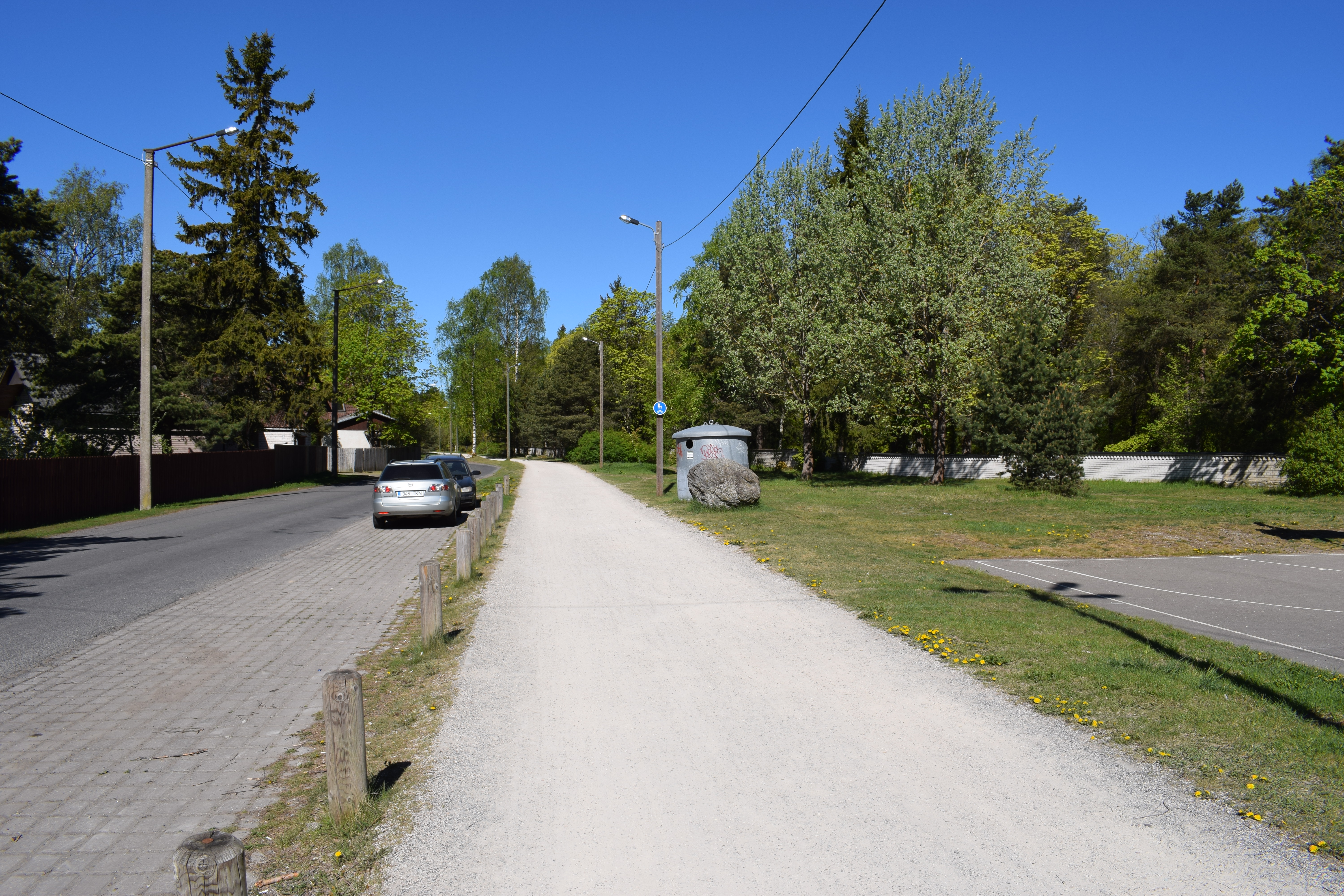 Kitsarööpa tee